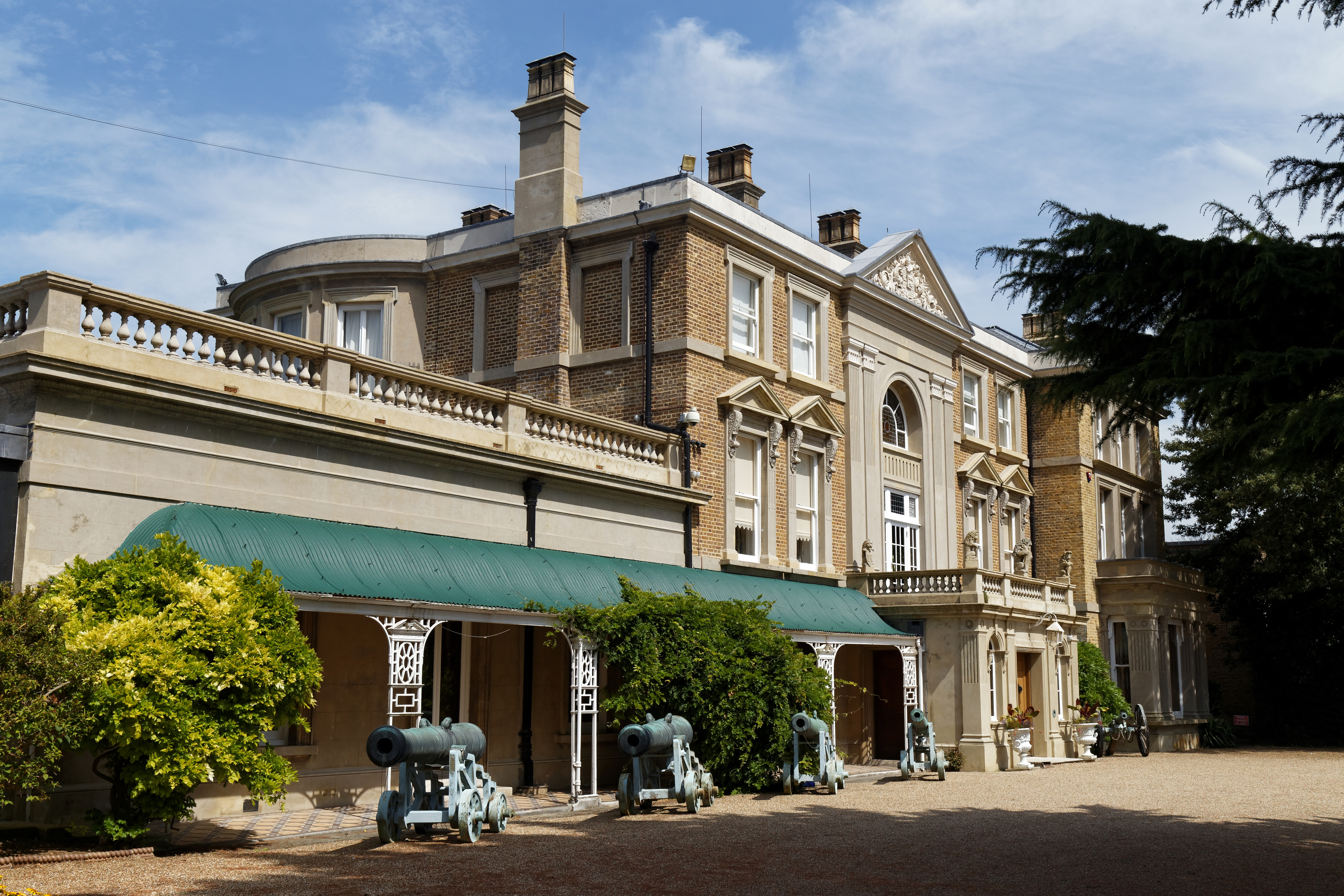 Grade II listed cannon on the gravel drive against the south side veranda of Quex House in the civil parish of Birchington in Kent, England.Software: RAW file lens-corrected, optimized and converted to JPEG with DxO OpticsPro 10 Elite, and likely further optimized and/or cropped and/or spun with Adobe Photoshop CS2.